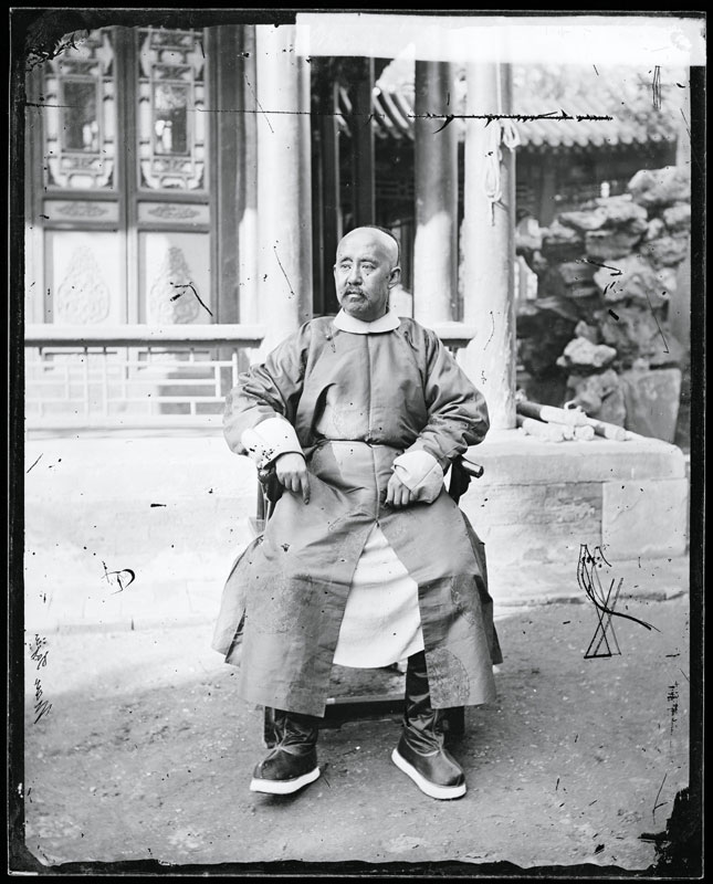 Mao Changxi, politician of the Qing Dynasty.